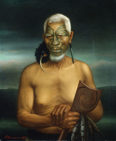 Tukukino, an old fighting chief of the Ngāti Tamaterā people of the Hauraki district, North Island, New Zealand. He is pictured wearing a pōhoi ear ornament made from the skin of the huia, an ornament often worn by high-born chiefs in the years before the bird became extinct. He is holding a tewhatewha weapon decorated with feathers from the Swamp Harrier. Tukukino was famous for his determined opposition to the opening up of the Ohinemuri area for goldmining. Lindauer painted this portrait in 1878.